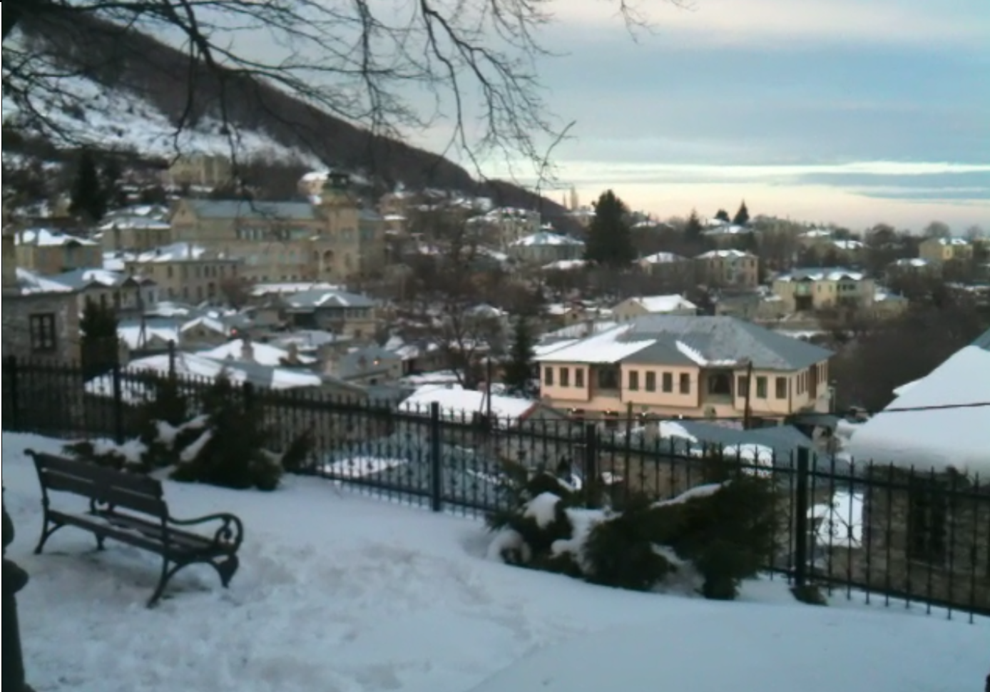 Winter in Nymfaio